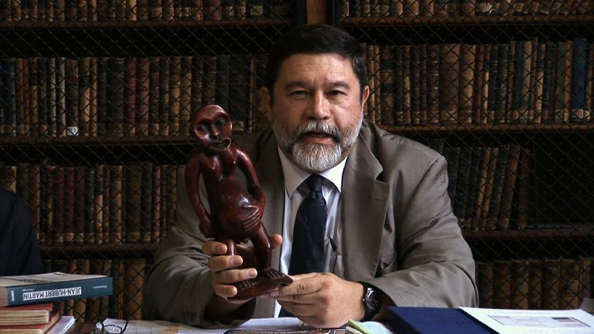 Photo portrait of Laurent Gervereau, french historian. Made in Paris in october 2013 at AgroTech Library.